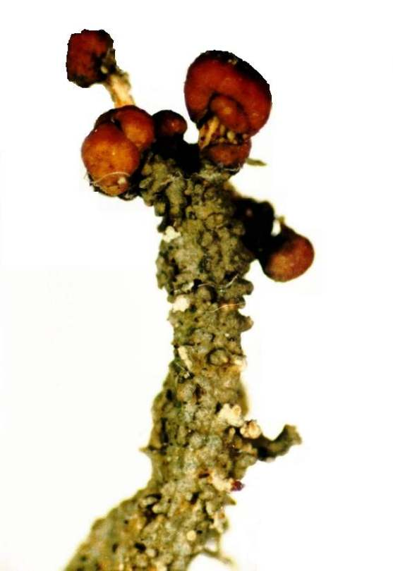 Cladonia scabriuscula (Delise) Nyl. (photograph of a herbarium specimen taken through a dissecting microscope (x23) showing a podetium topped with apothecia) Growing in moss in a damp woods near lookout tower at the end of Trail's End Road, near the confluence of the Montreal River with Lake Superior, Ontario, Canada; collected and identified by Richard E. Riefner (No. 81-313, 27 Jun 1981); specimen is now in the Lichen Herbarium of the New York Botanical Garden.